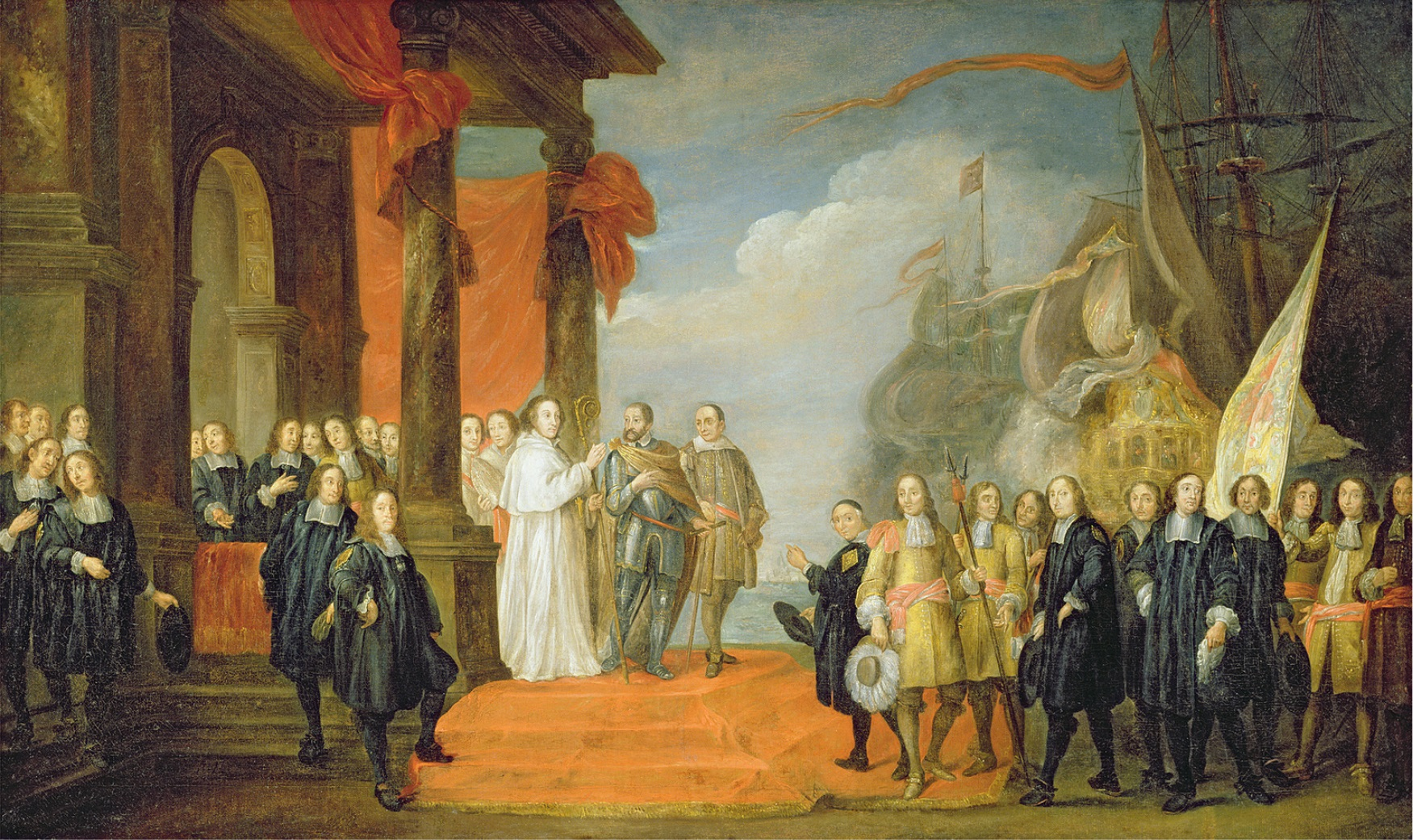 Charles V (1500-58), Holy Roman Emperor; King of Spain, Naples, Sicily; leaving Dordrecht in Holland